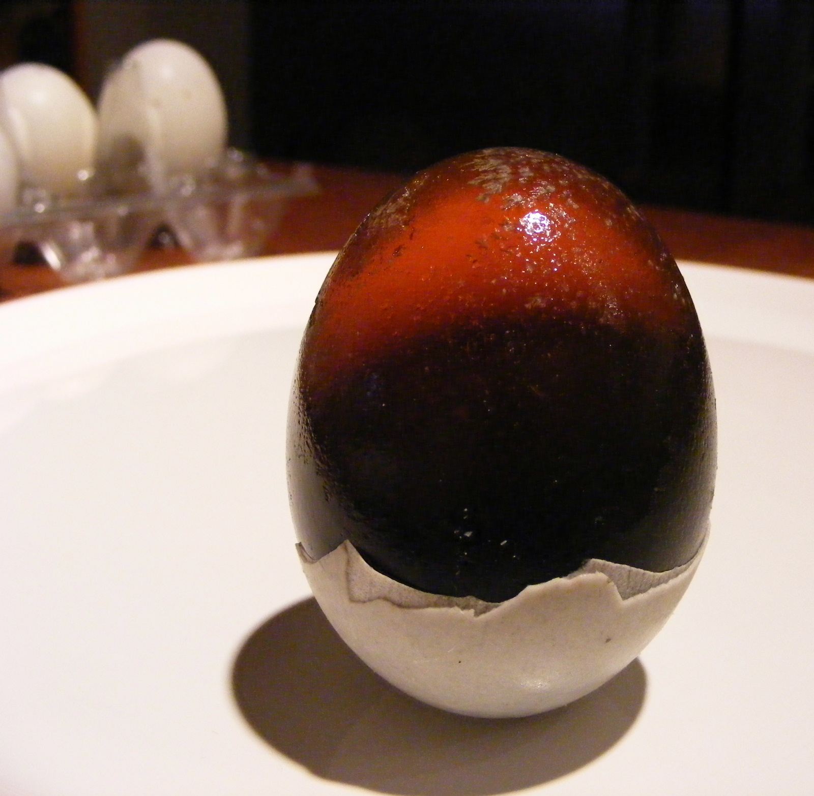 A Century Egg, Cuisine of China